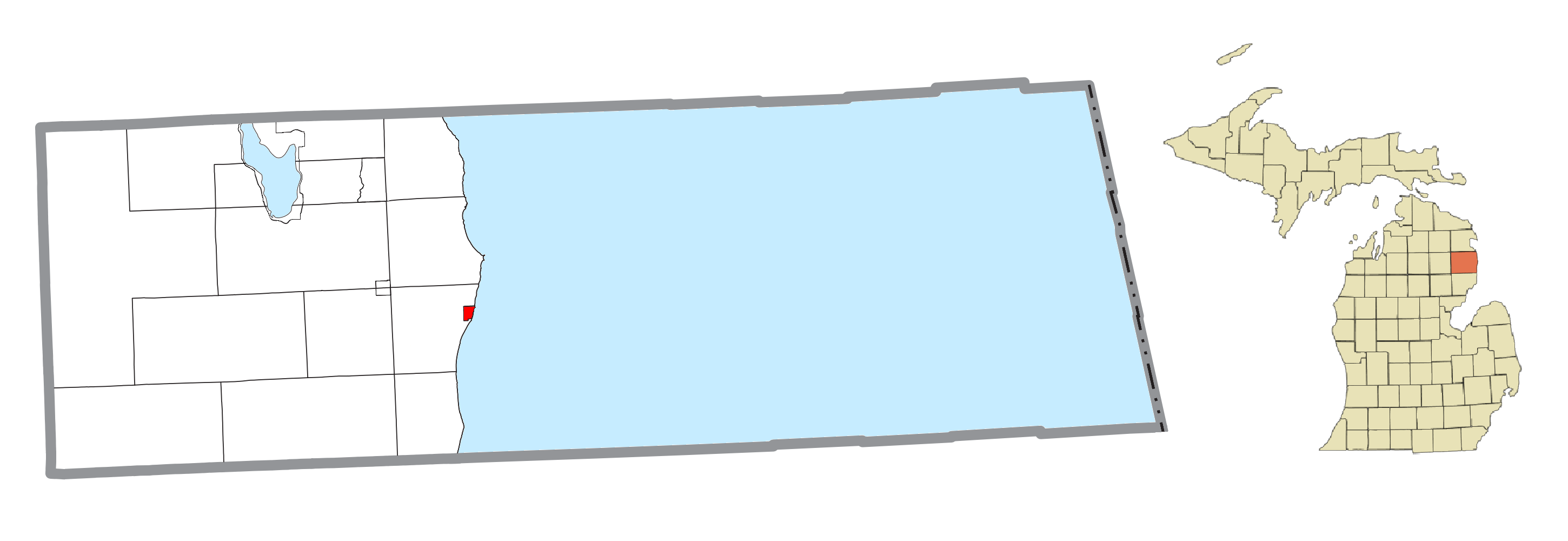 Harrisville, MI